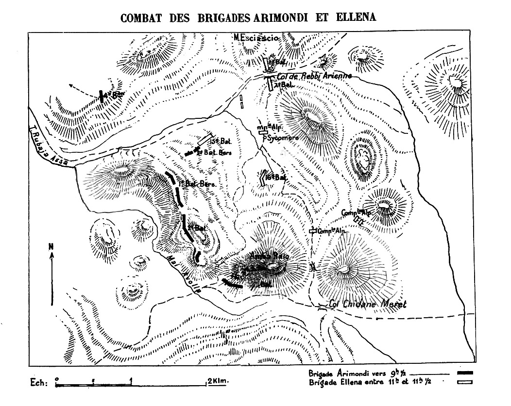 Fight of the troops of Arimondi and Ellena at the Battle of Adwa (1896)